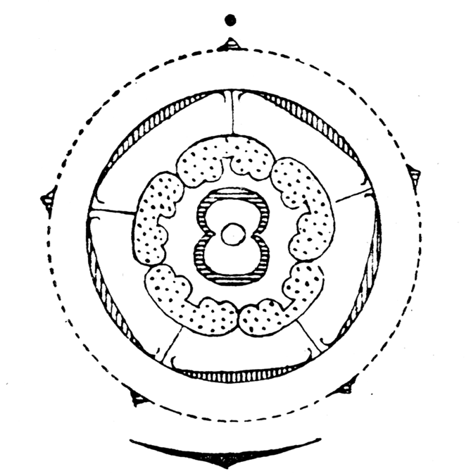 flower diagram of Carduus